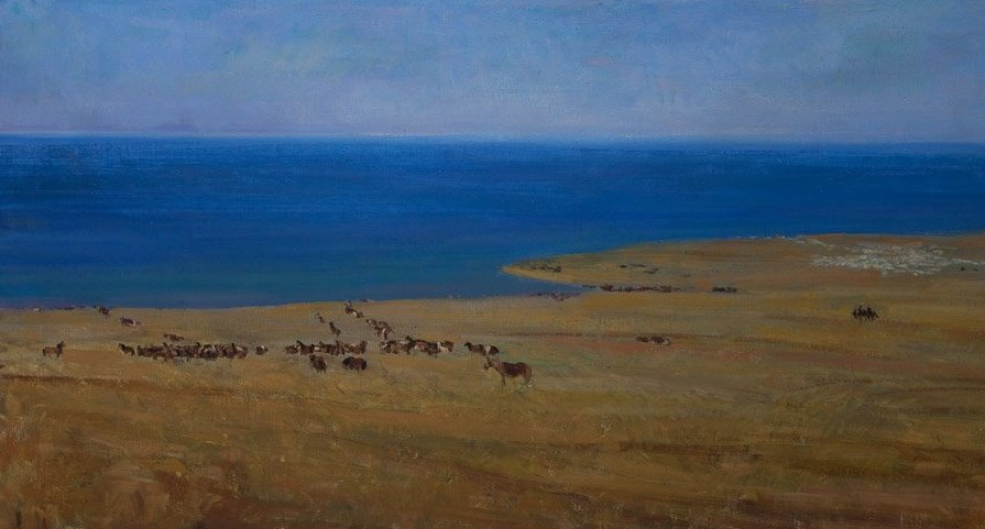 Uvs-Nuur Lake